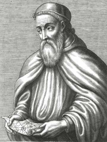 Lopo Soares de Albergaria (1460-1520), 3rd Governor of Portuguese India (1495-99)